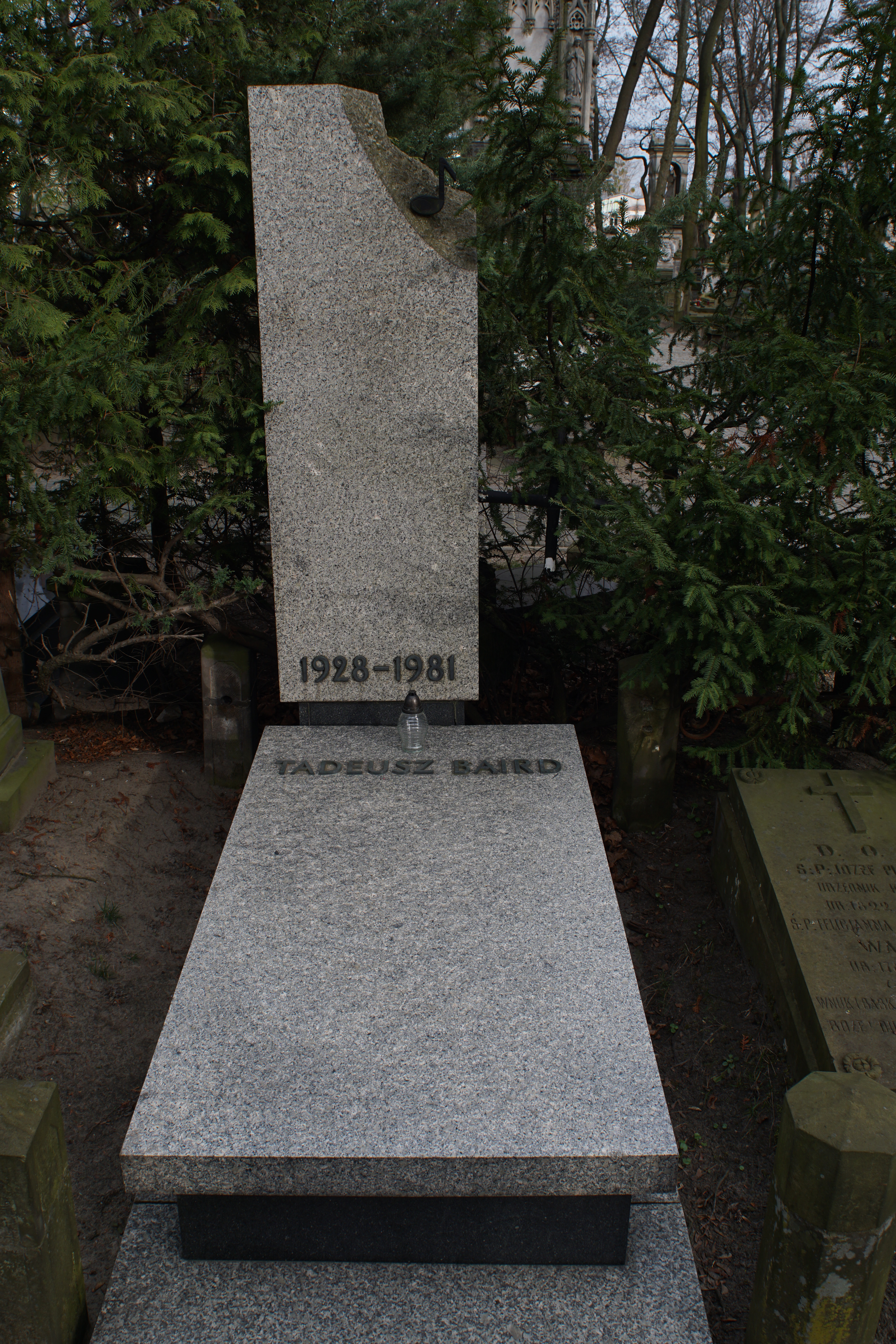 The grave of Tadeusz Baird at the Powązki Cemetery (section 1, row 2, grave 27)